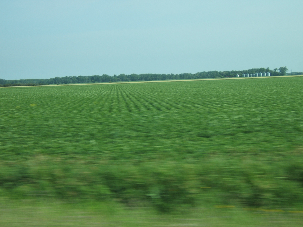 Crop near Portage La Prairie